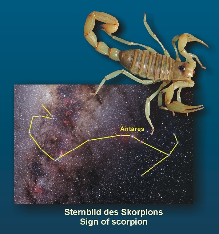 Sign of Scorpion, Desert Hairy Scorpion (Hadrurus arizonensis), captivity